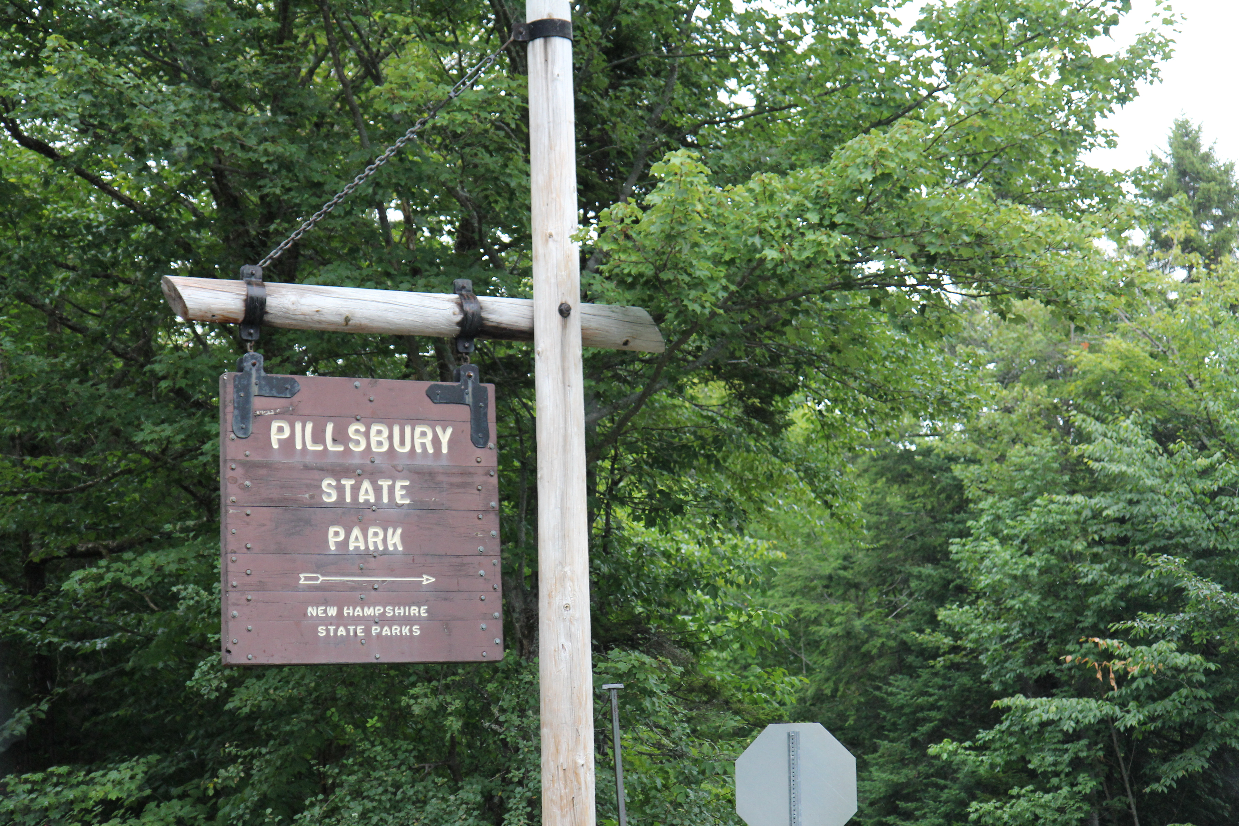 The sign for Pillsbury State Park in New Hampshire.